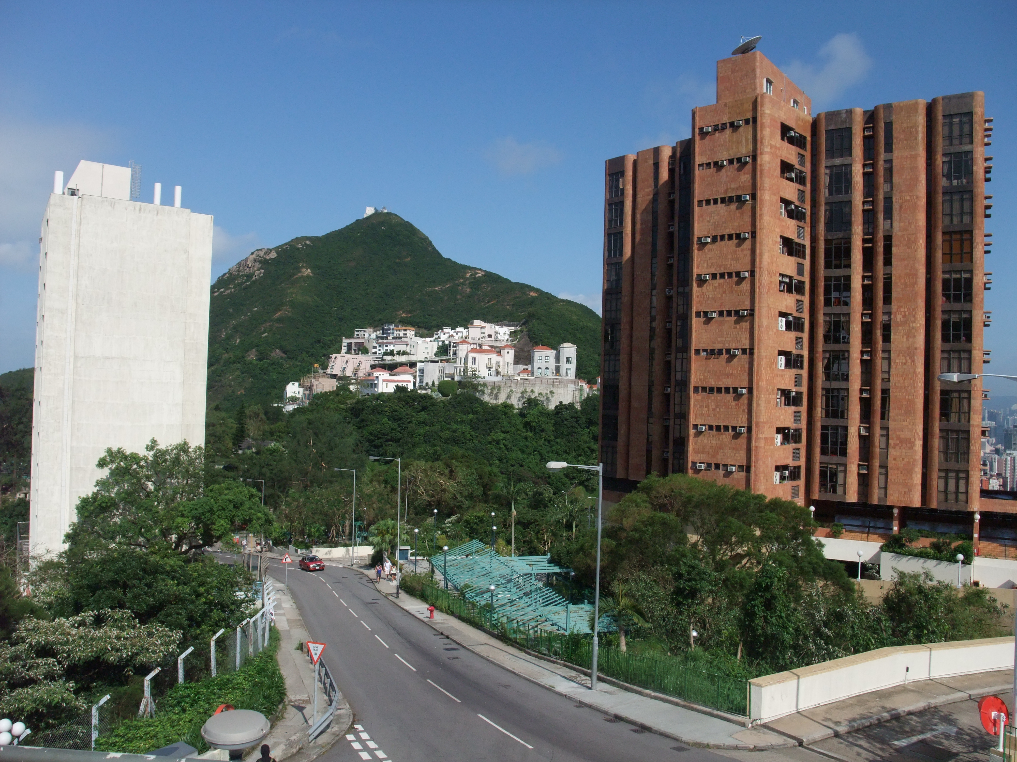 Photo of Mount Nicholson